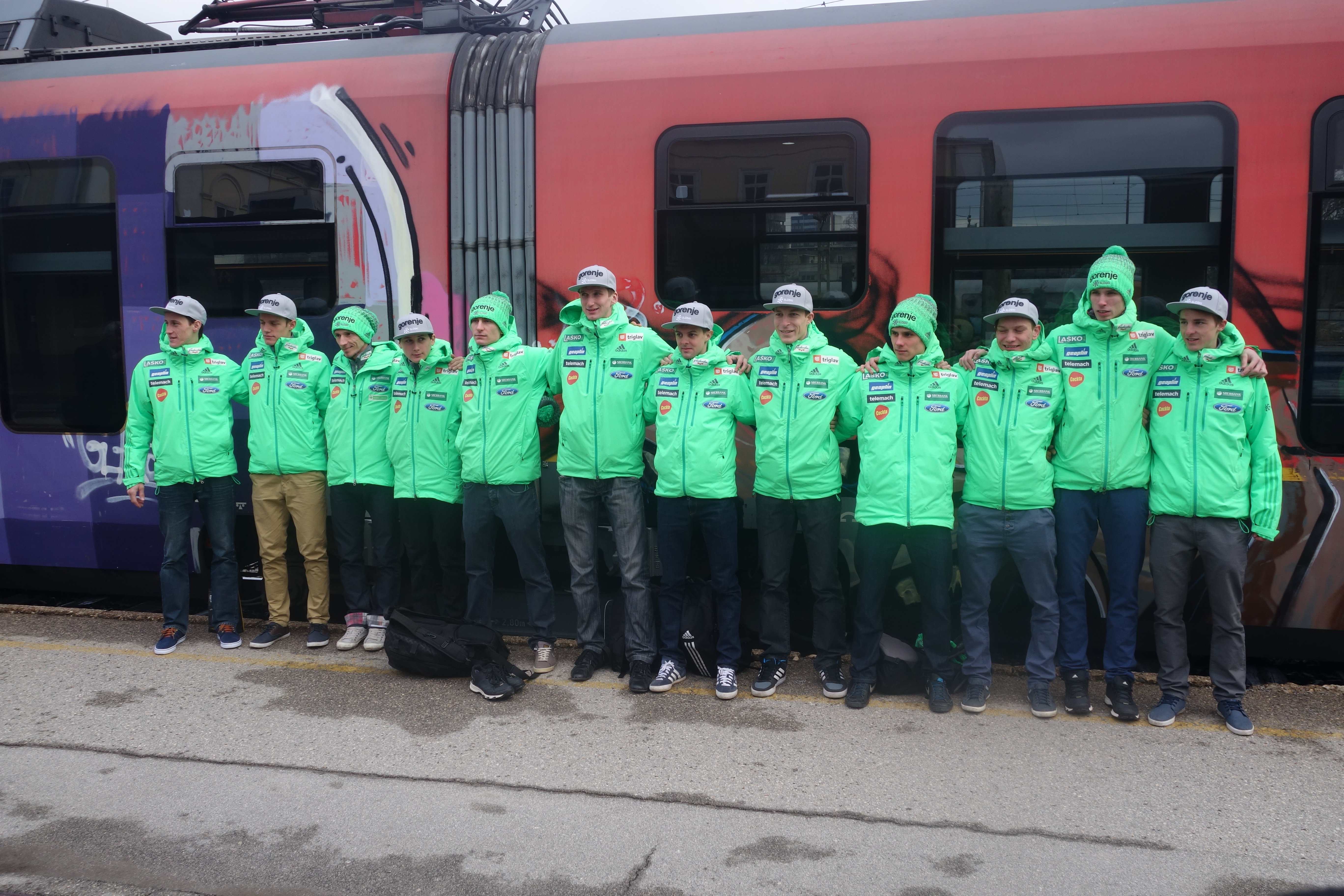 Ski jumping team of Slovenia for Planica 2016. From left: Peter Prevc, Matjaž Pungertar, Robert Kranjec, Cene Prevc, Andraž Pograjc, Mitja Mežnar, Tomaž Naglič, Jurij Tepeš, Rok Justin, Anže Lanišek, Anže Semenič, and Jaka Hvala.